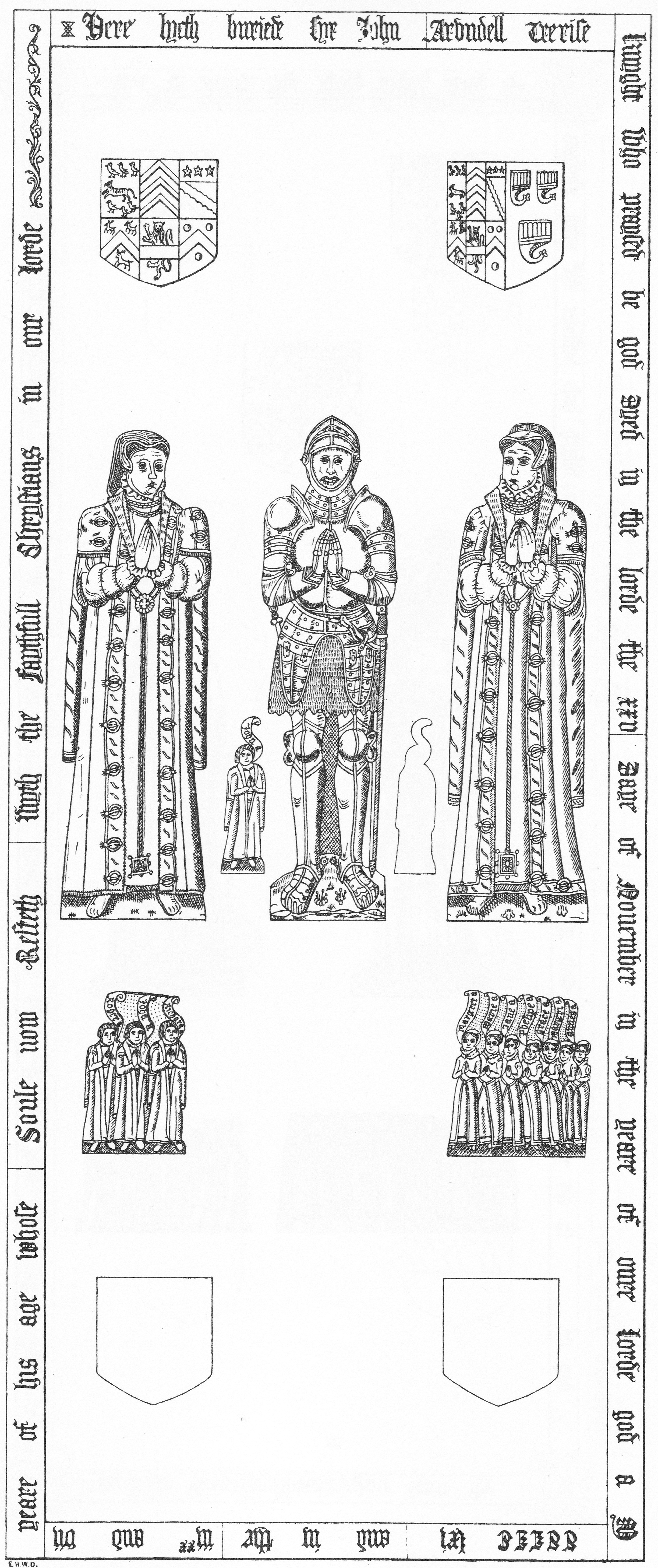 Monumental brass in Stratton Church, Cornwall, of Sir John IV Arundell (1495–1561), known as "Jack of Tilbury", an Esquire of the Body to King Henry VIII whom he served as Vice-Admiral of the West. He was knighted at the Battle of the Spurs in 1513. In 1523 he achieved notability by the capture of a notorious pirate. He served twice as Sheriff of Cornwall, in 1532 and in 1541